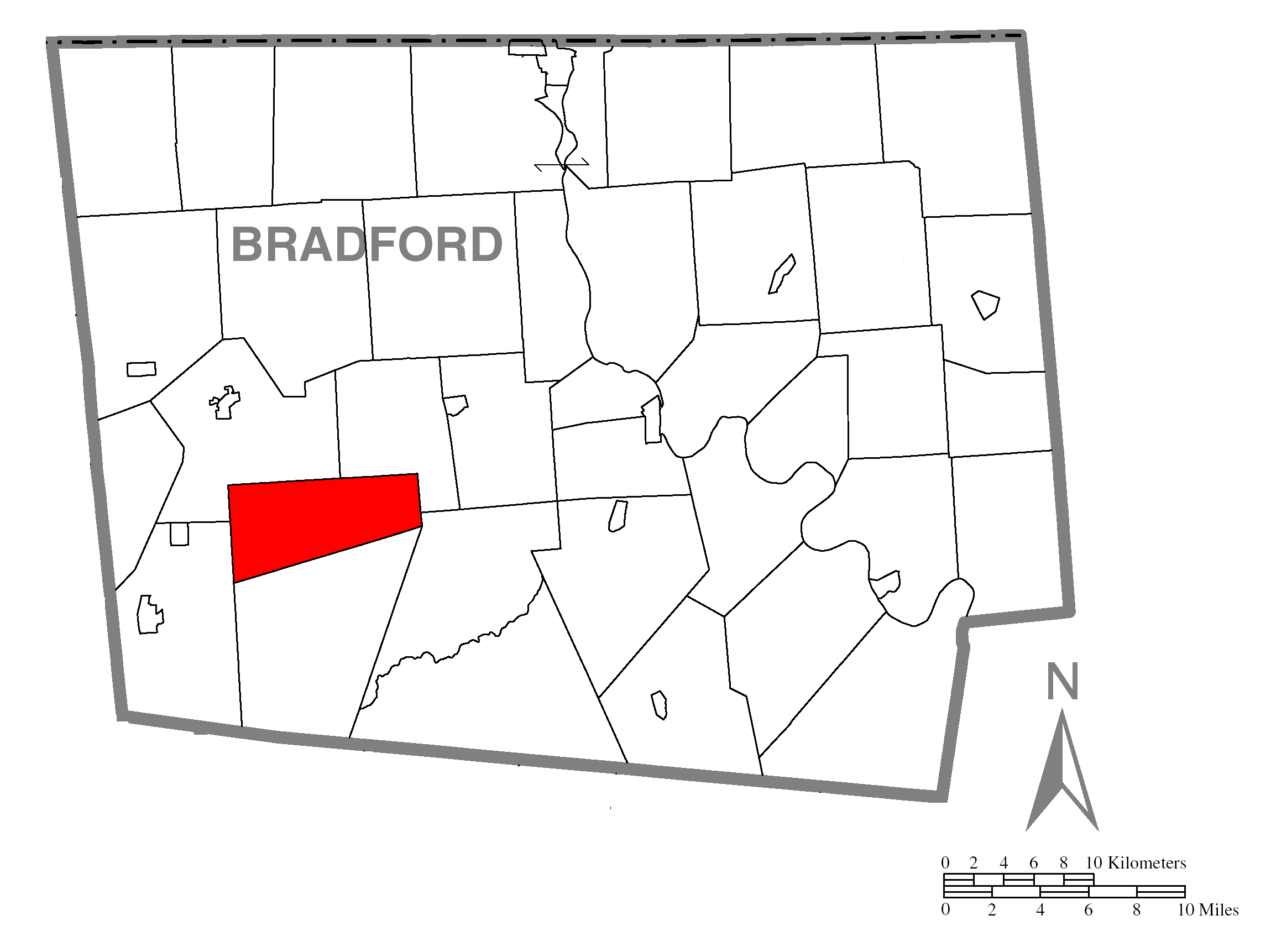 A map of Bradford County showing Granville Township, Pennsylvania (alternate) highlighted on the map.